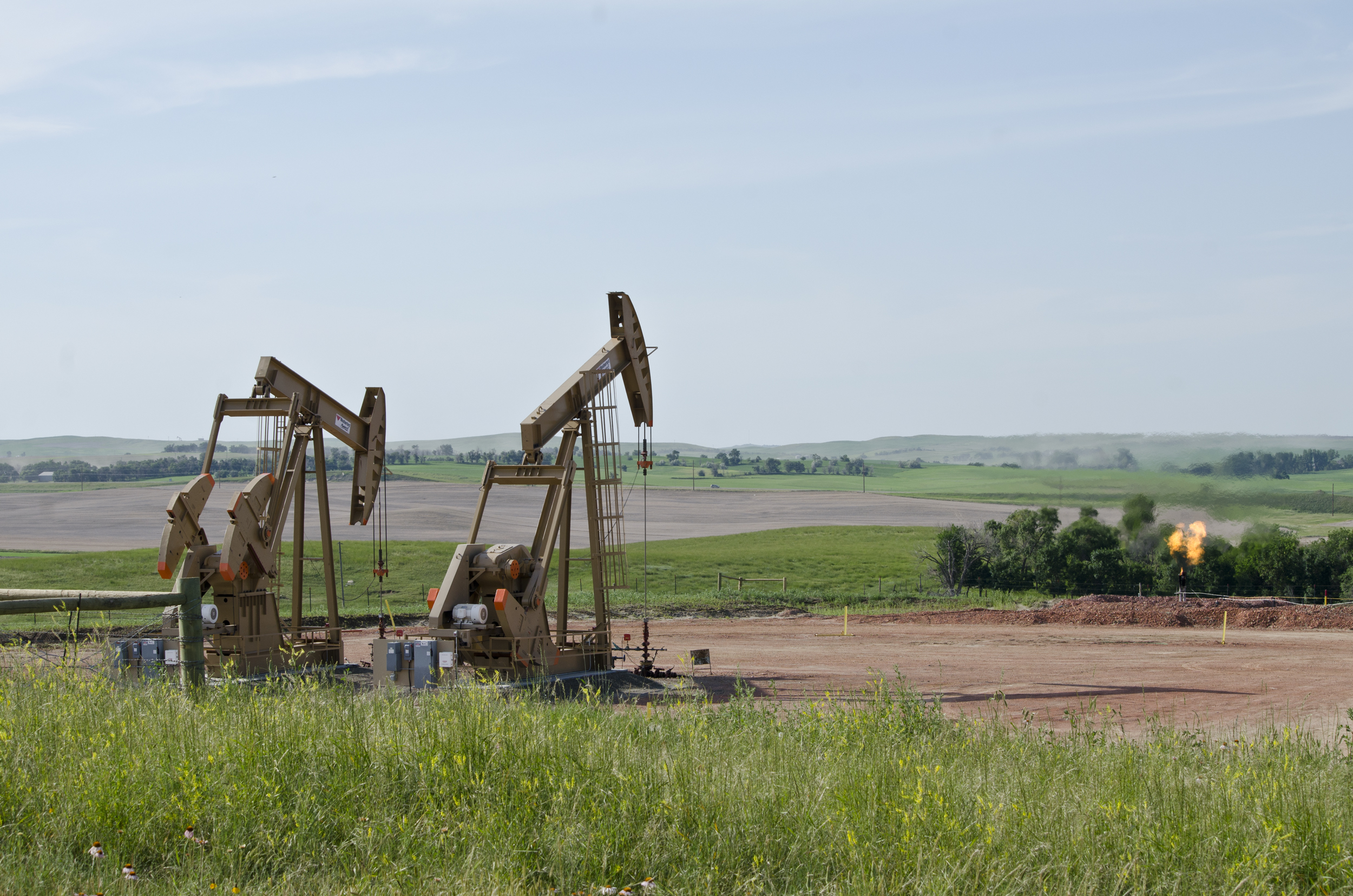 Moisture flare at the Obenour 1 and 2 well on the Evanson family farm in McKenzie County, North Dakota, east of Arnegard and west of Watford City. Water is a natural byproduct of oil drilling, and is especially plentiful if fracking occurs. But this water cannot be mingled with the oil that is stored on-site. So a moisture separator allows the water to sink below the oil. Natural gas is sometimes soluble in the water, and so is separated out, too. This is such a minimal amount of gas that it is just burned off. The pipe here itself is about three feet high, and the flame shoots about another six feet into the air. There are few pipelines in McKenzie County, and almost none of the them oil pipelines. Nearly all oil is trucked out, and semi trucks clog the local highways. Oil generally is trucked out only in good weather (most roads are dirt), so rainy or winter months there is little oil moving. In good weather, trucks run about 20 hours a day, and drivers do nothing but take empty trucks out, collect oil, take full trucks to the local processing plant, unload, and repeat. Natural gas is plentiful, and there is no way to get it out. So most of it is flared (burned) off.